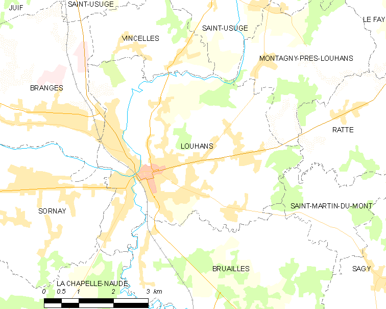 Map of French municipality